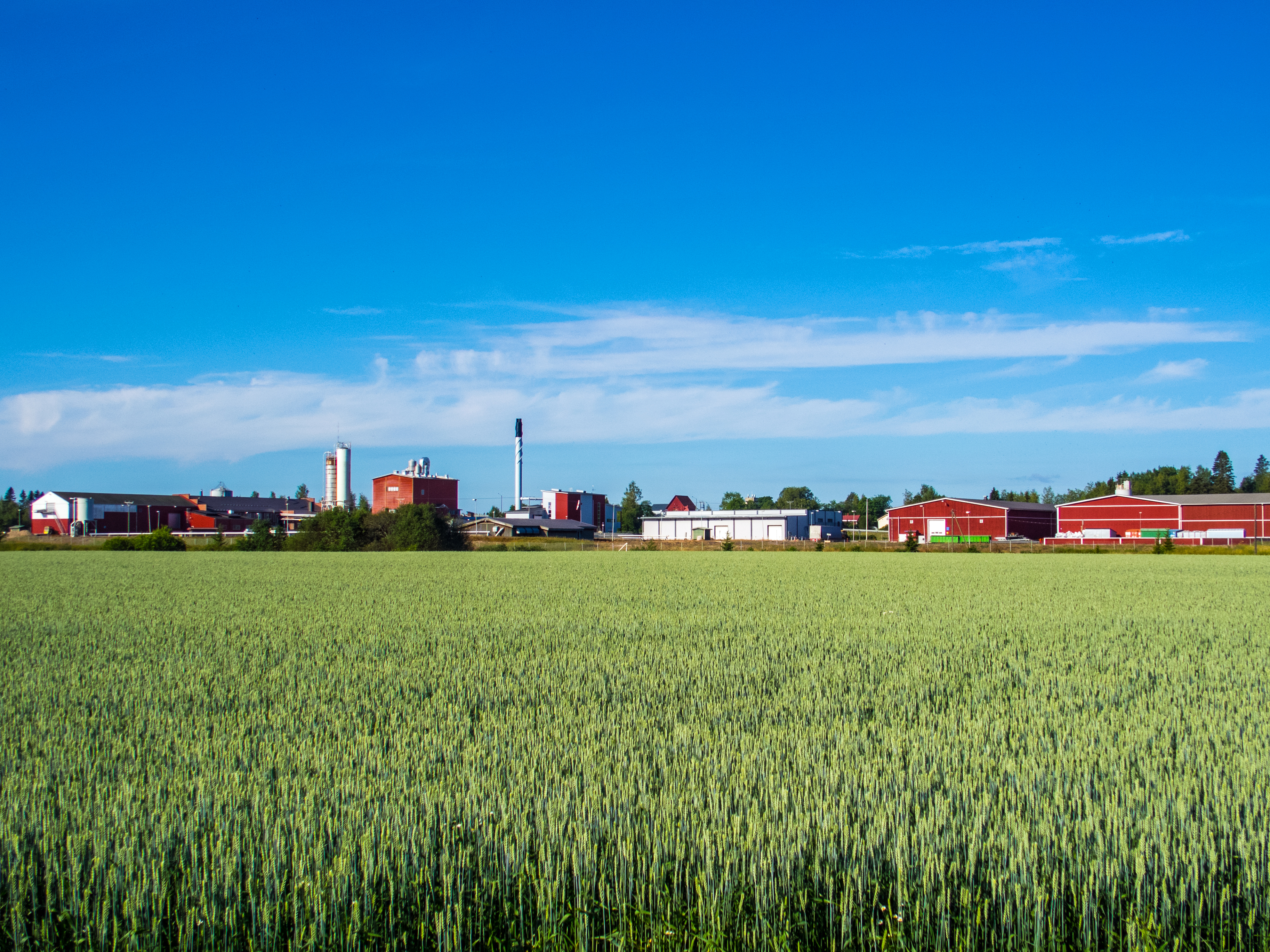 Finnamyl potato starch factory in Kokemäki, Finland.